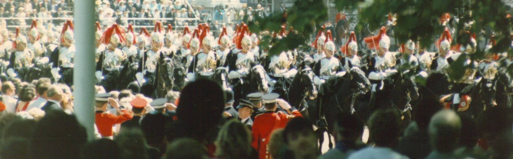 The Household Cavalry during Trooping the Colour on Horse Guards Parade, London, UK. Taken by contributor June 1986.